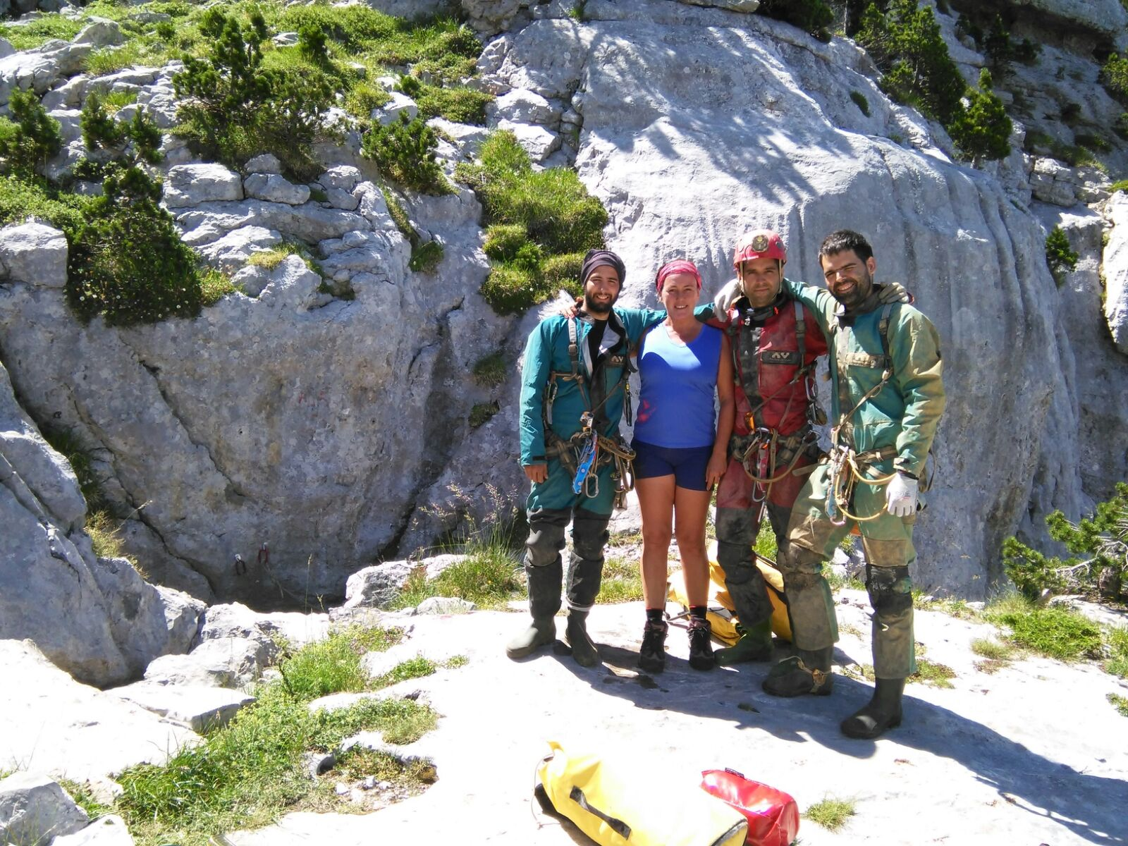 Speleologists in front of BU-56 Illaminako Ateak cave entrance. Campaign of 2018.